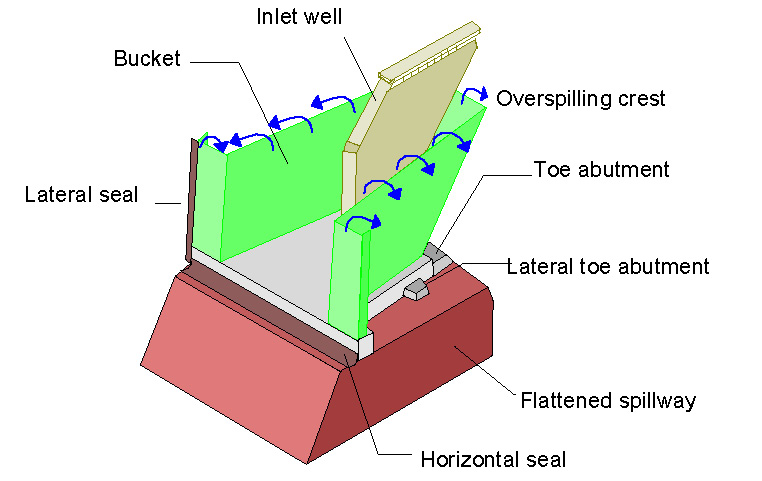 Typical fusegate sketch.